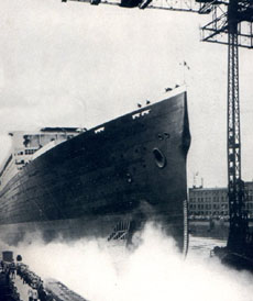 The launch of the Bismarck.